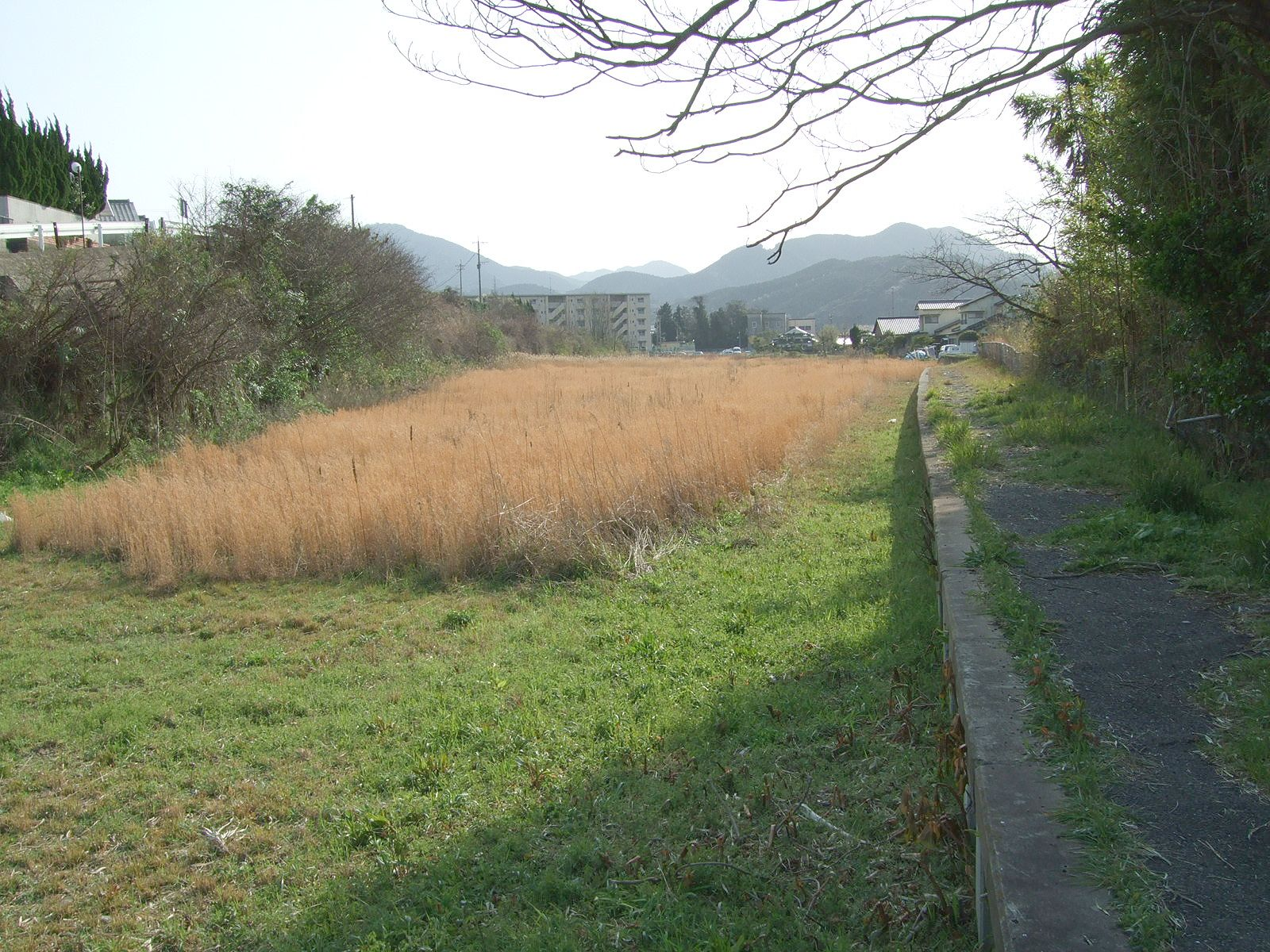 The ruin of Chikuzen-Miyada Station, Miyada Line.